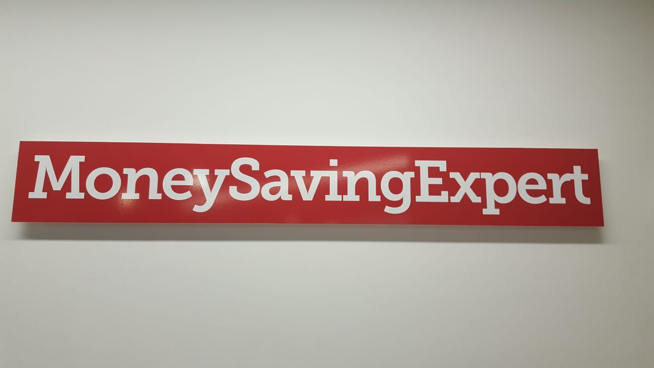 Logo of Money Saving Expert, as seen on the reception wall of their offices in Ewloe